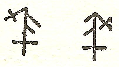 foundry marks of Hermann Paßmann 1567